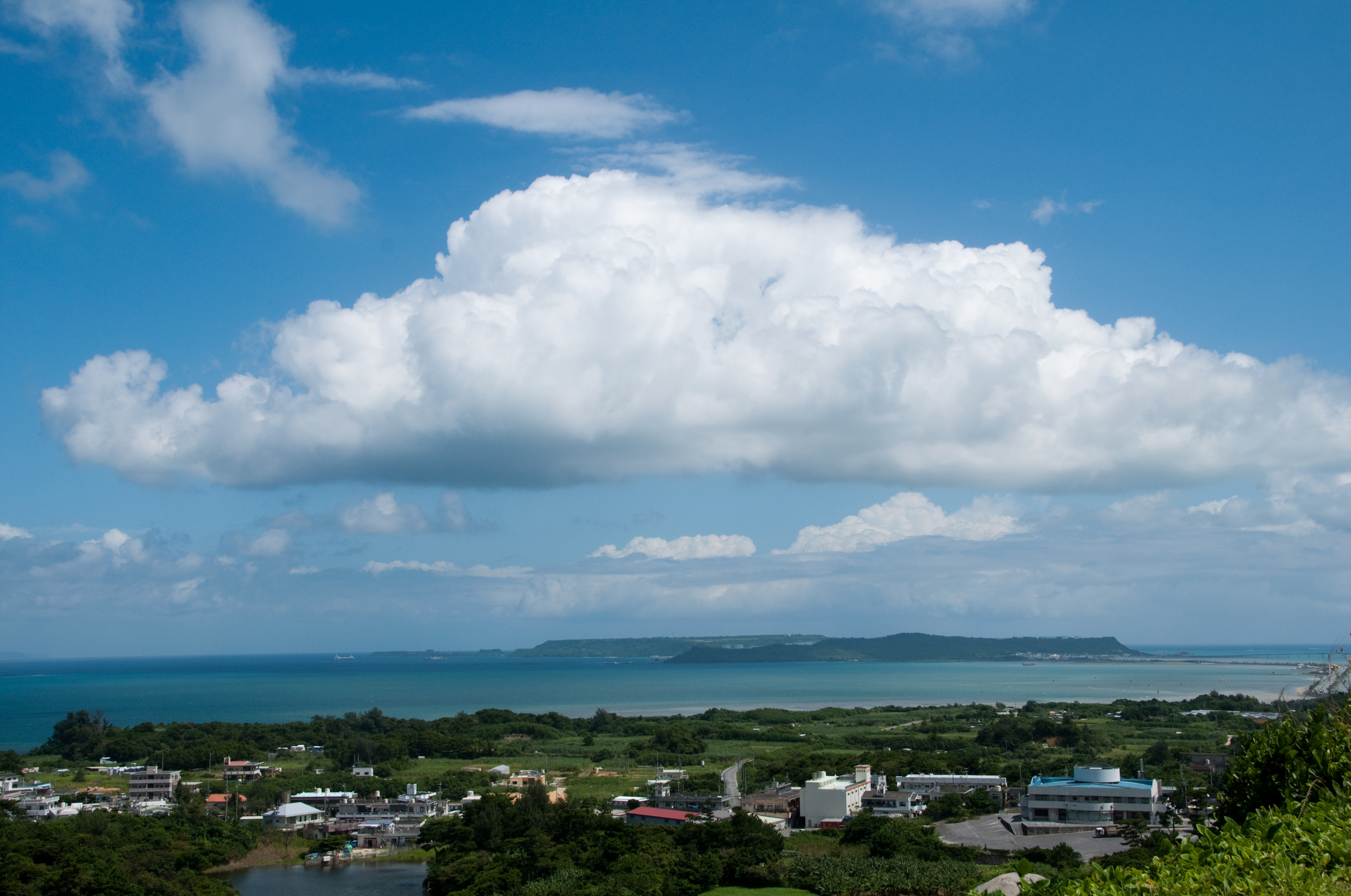 View of Yokatsu Islands in Kin Bay from Katsuren Castle. Katsuren Peninsula, Uruma, Okinawa Prefecture, Japan.